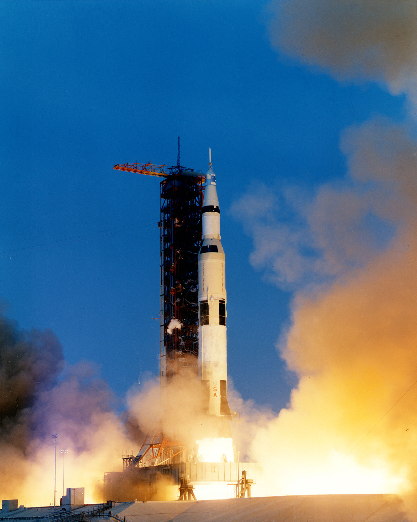 Apollo 13 liftoff